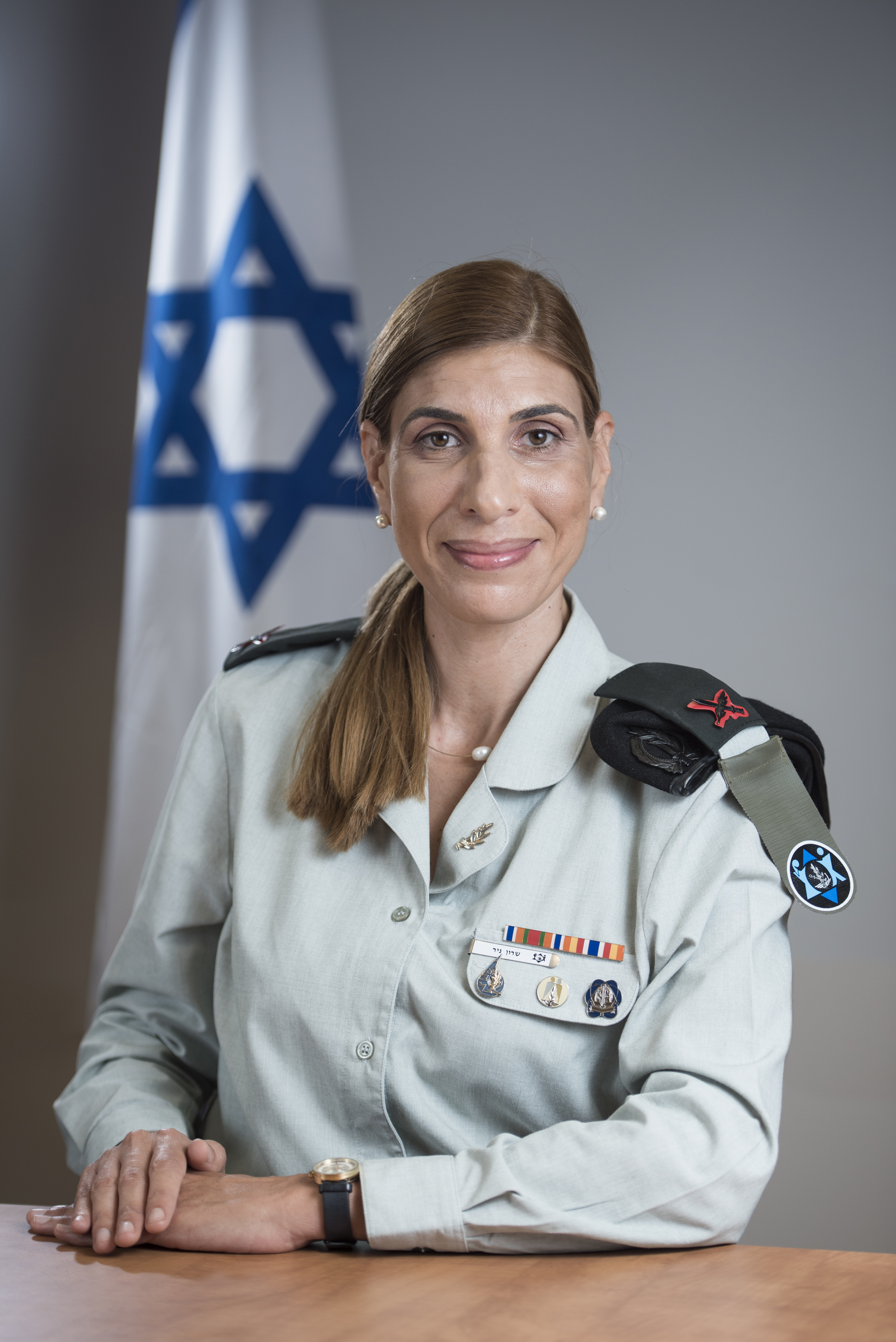 Depicted person: Sharon Nir